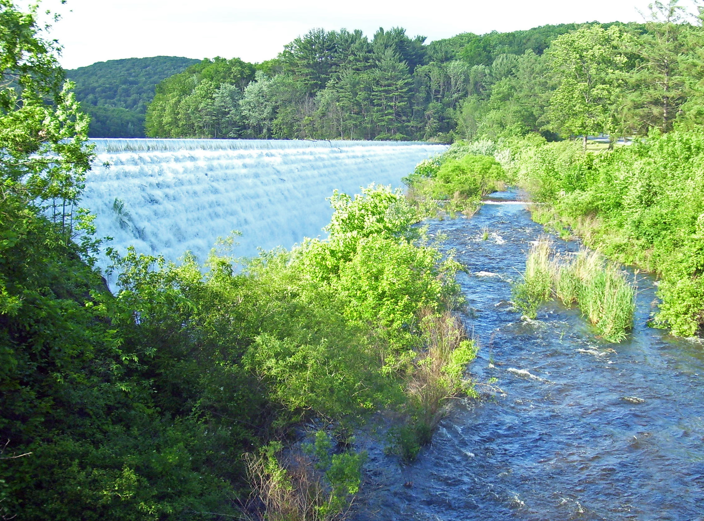 Spillway at New York City's East Branch Reservoir near Brewster.